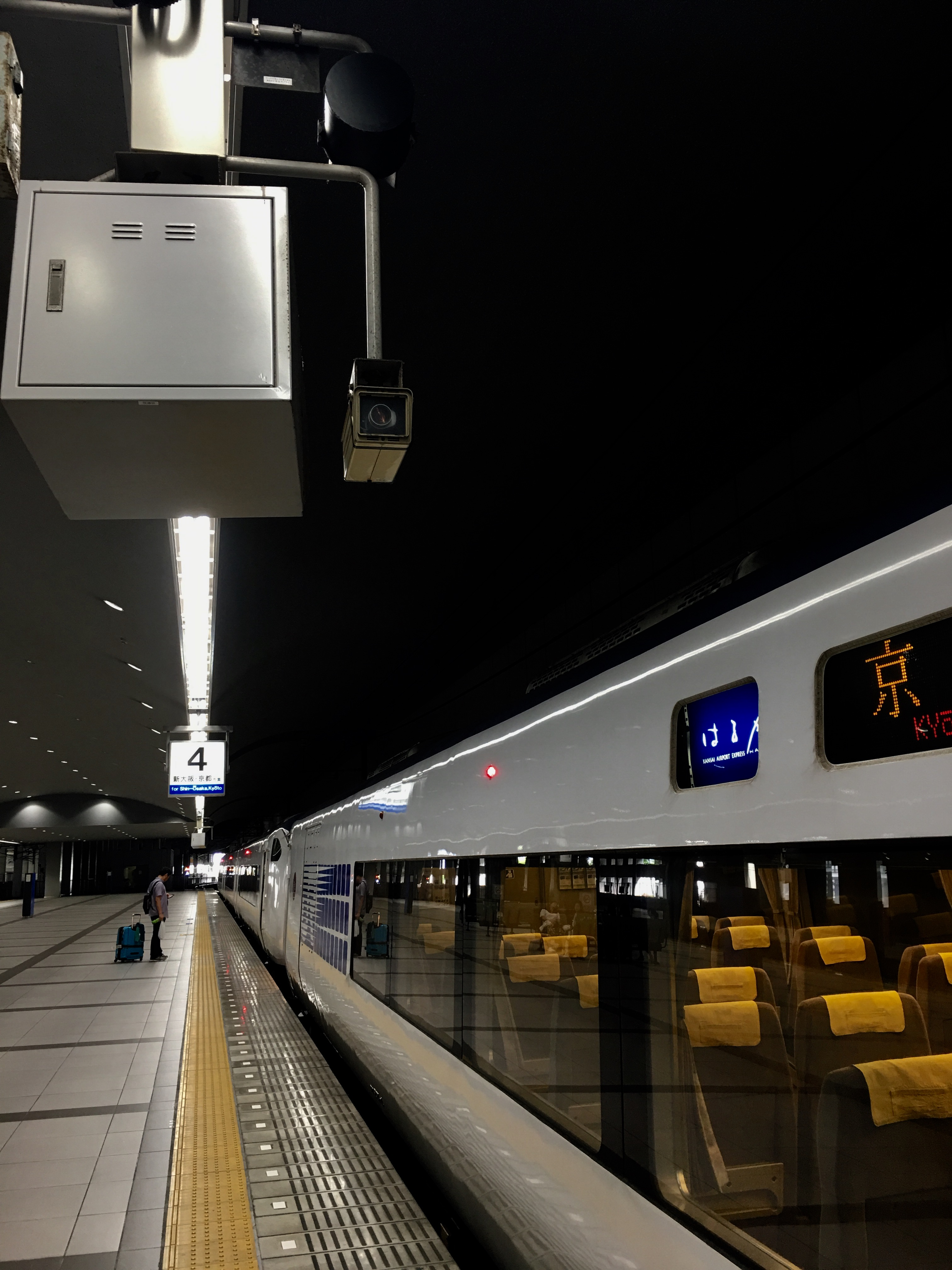 Kansai Airport Station platform number 34